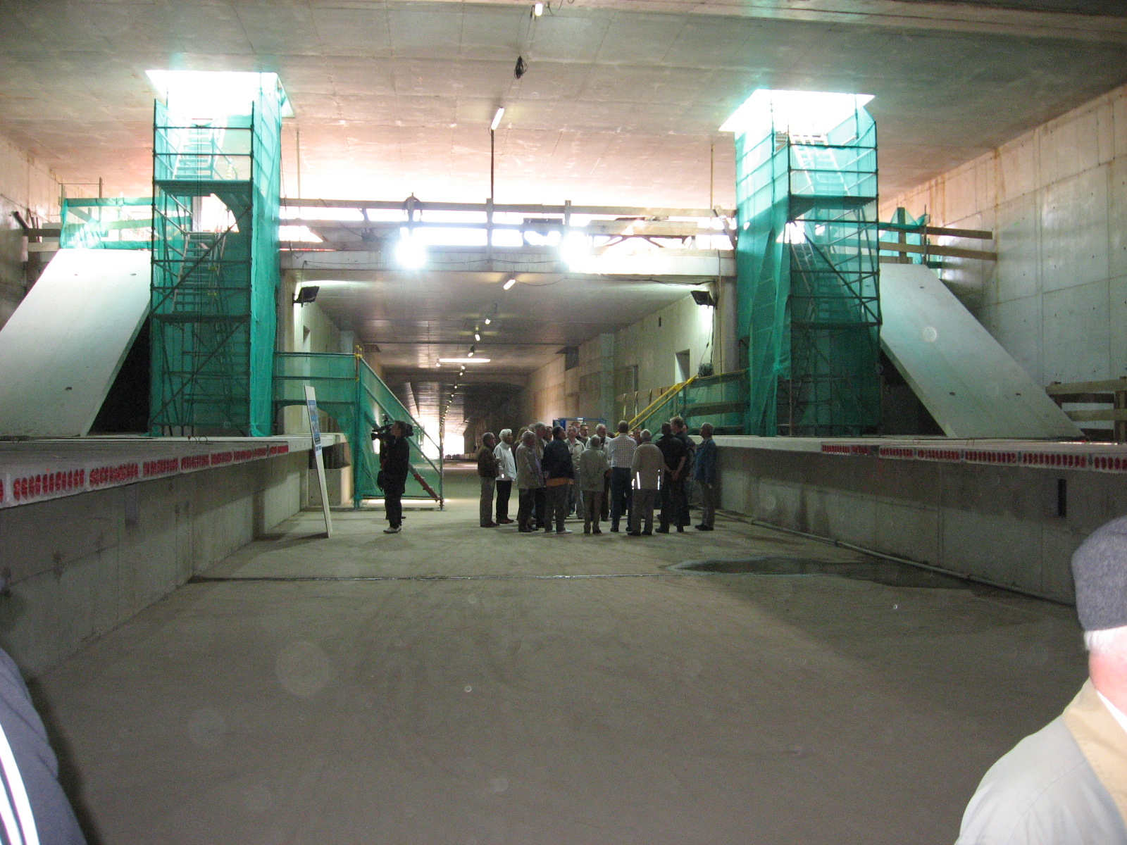 Station Europaplein on the North-south metro in Amsterdam, The Netherlands. June 6th, 2009